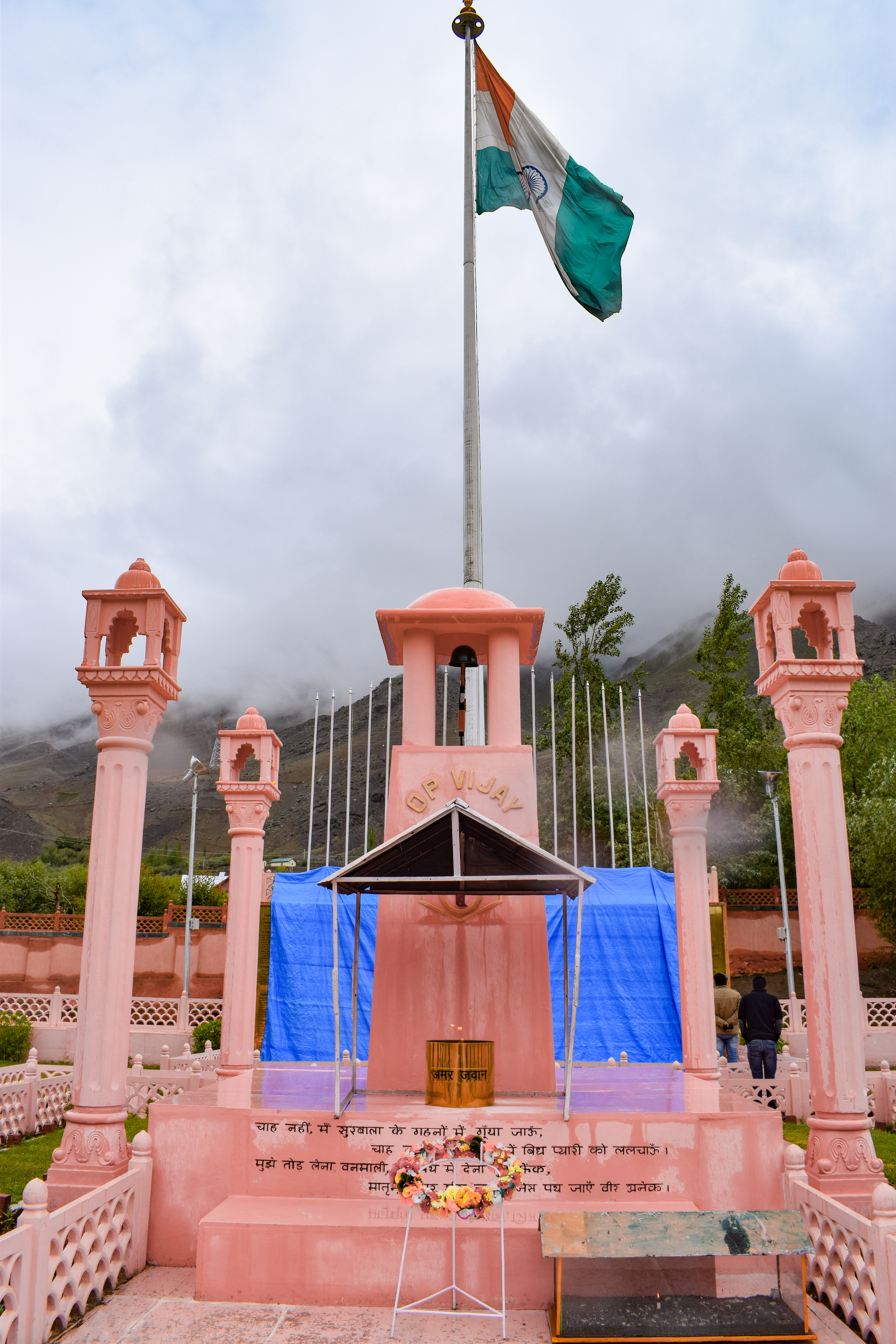 Kargil War Memorial, Drass